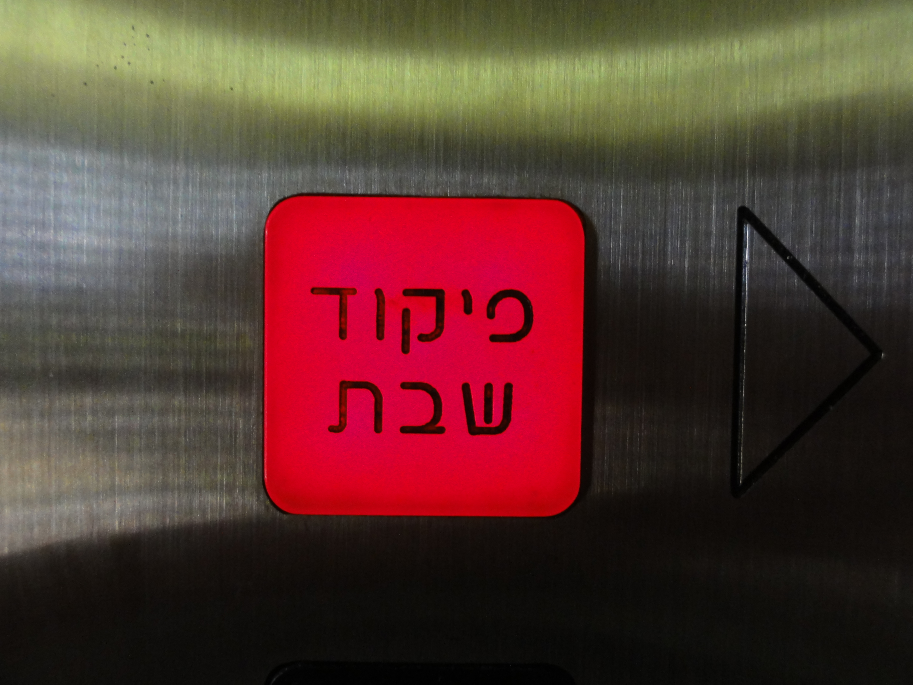 Lit sign of a Shabbat elevator in Israel. Info GPS data may be inaccurate. EXIF data regarding date and time may be inaccurate.